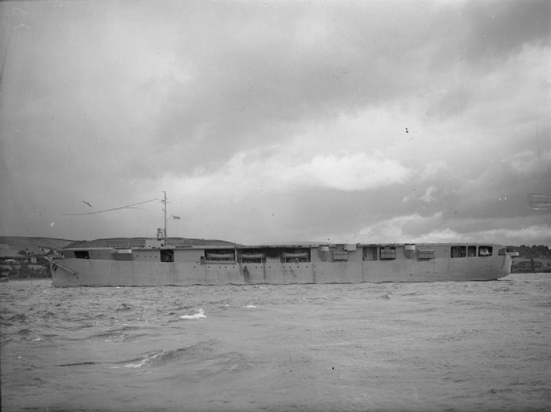 The British Merchant Aircraft Carrier (MAC) ship MV Empire MacAndrew, off Greenock, between 1943 and 1945.